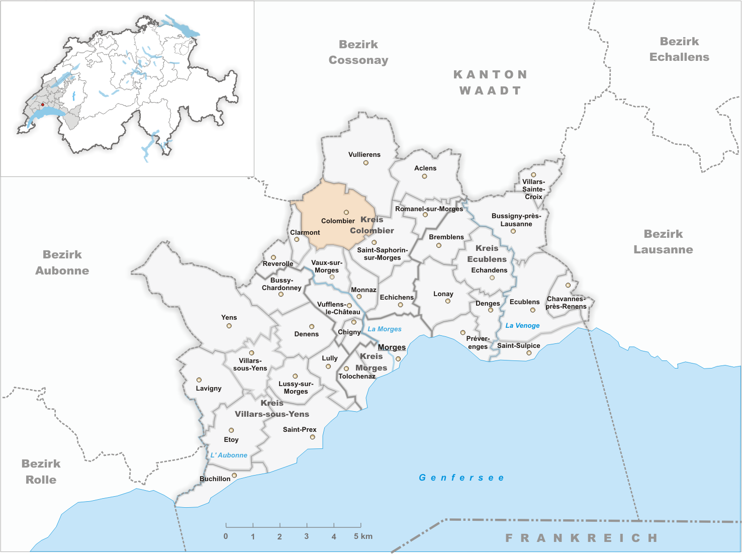 Municipality Colombier